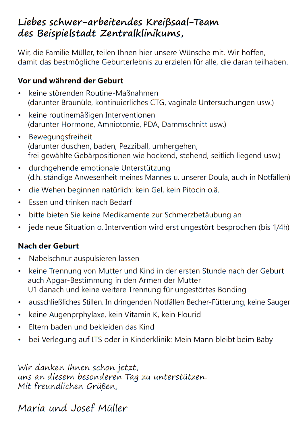 Example of a single-page birth plan for use in a hospital, here from a couple that wishes less medical interventions. German.